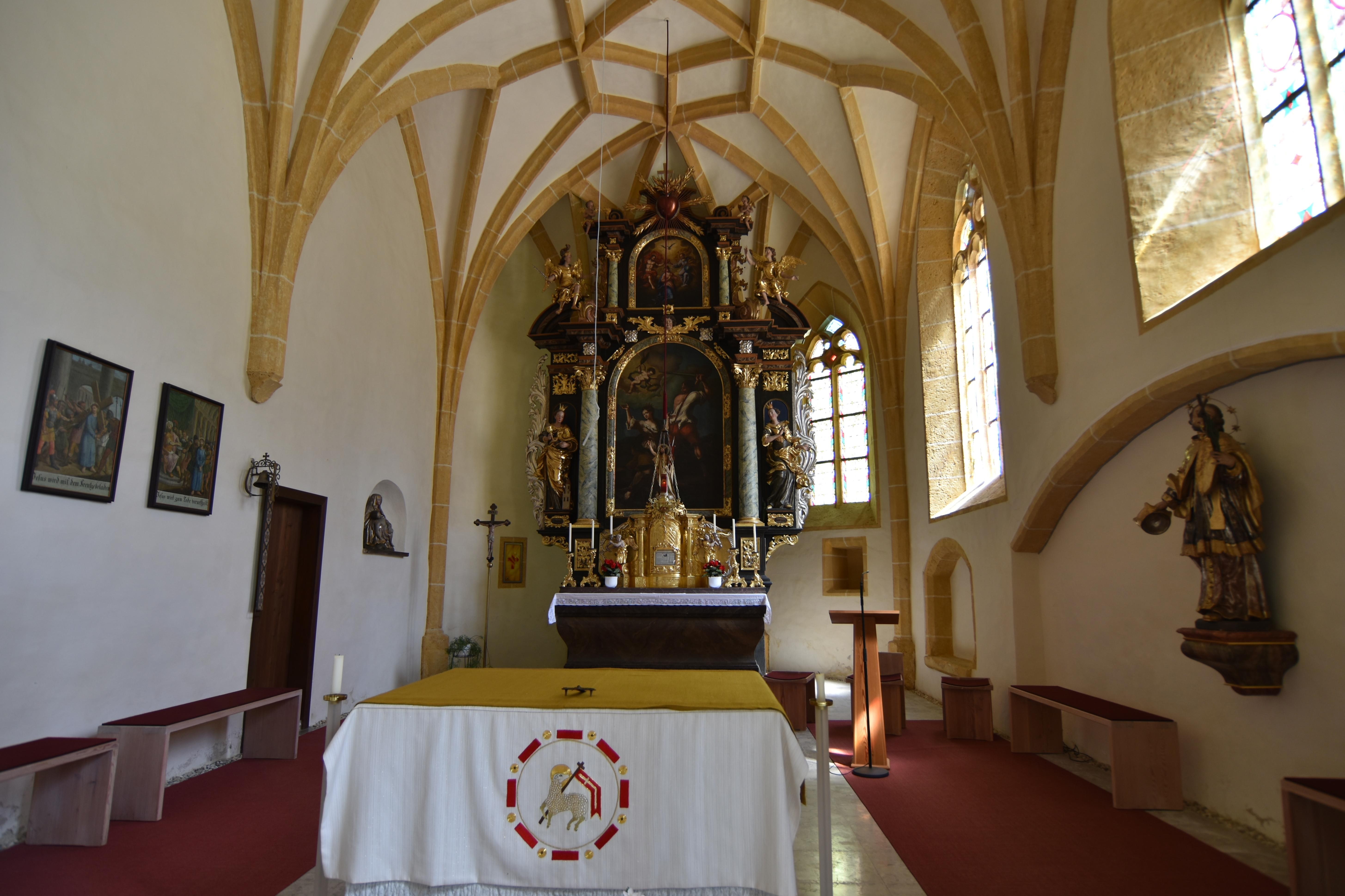 Saint Catherine of Alexandria Church Sankt Katharein an der Laming Interior